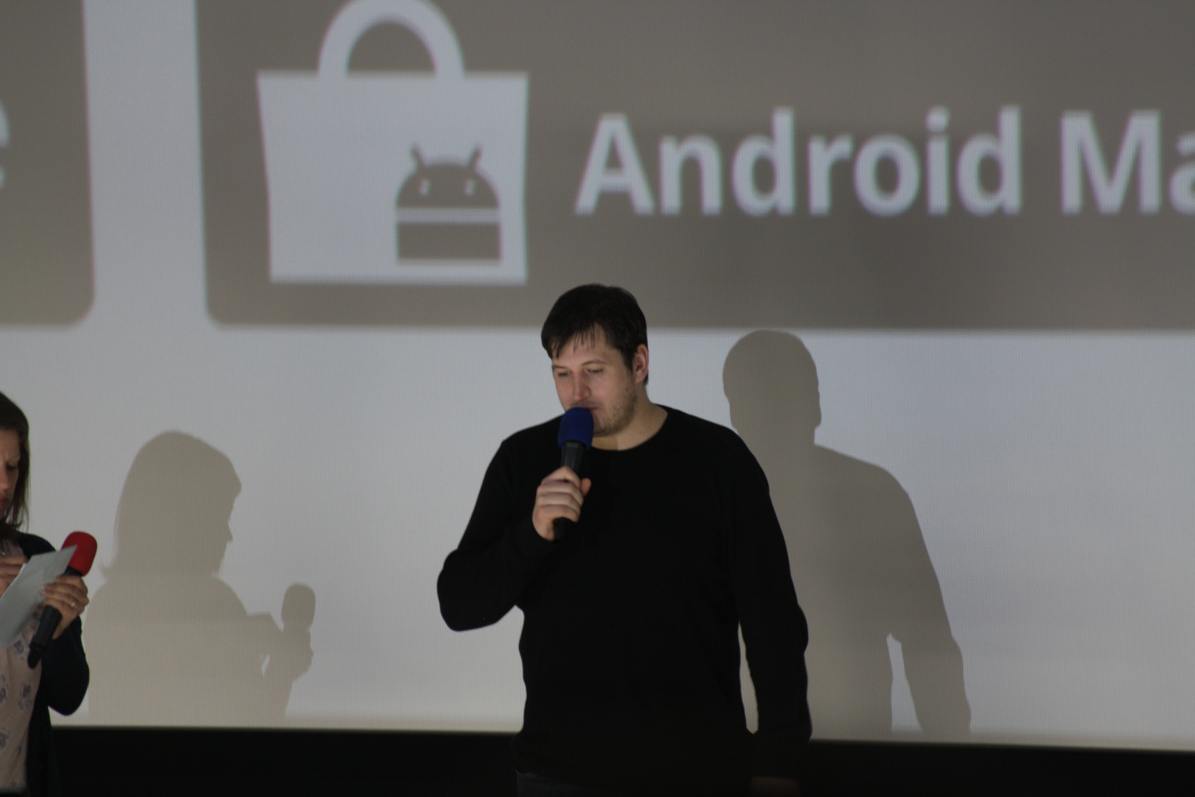 Gareth Evans On Stage